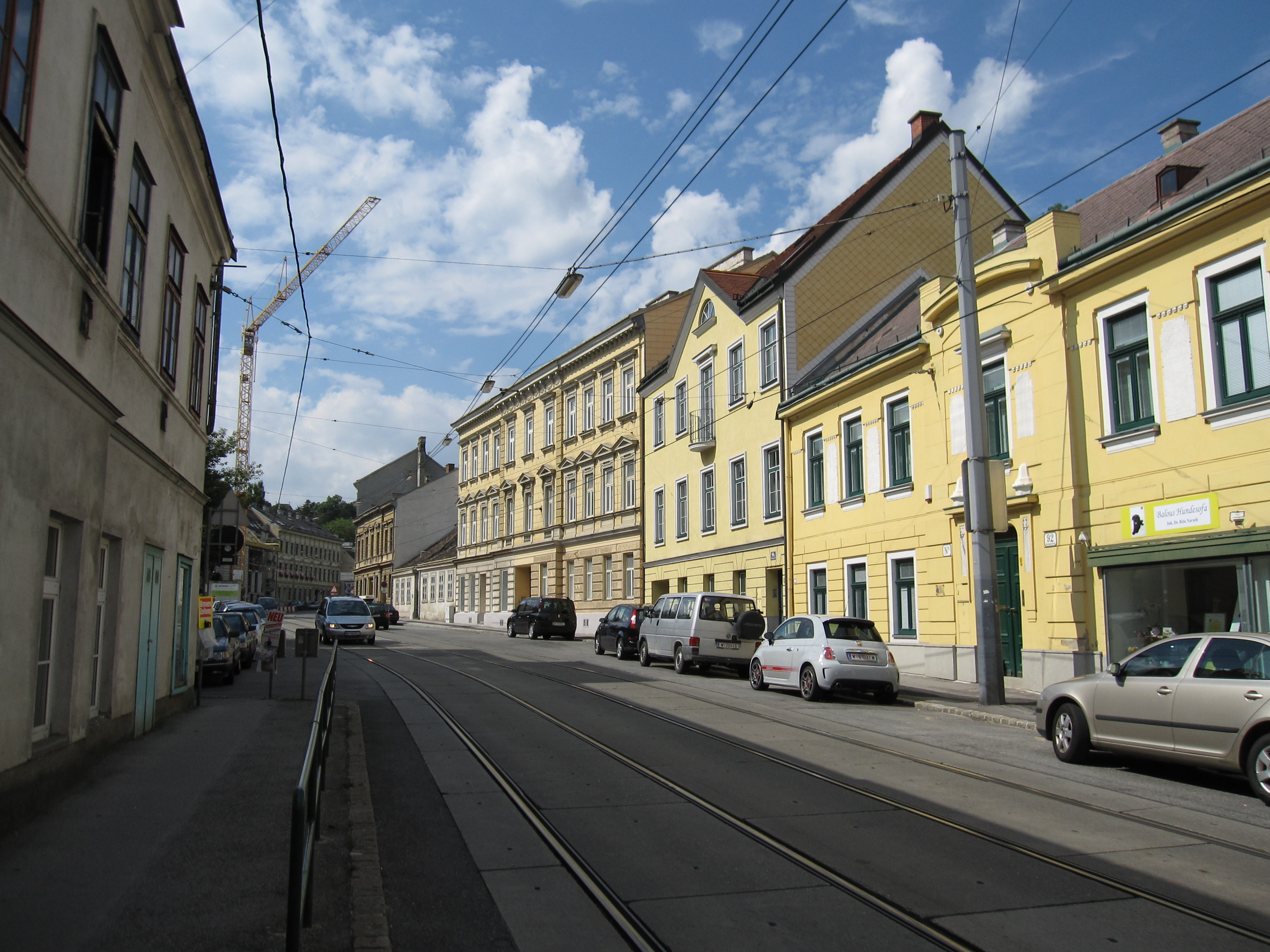 Dornbacher Strasse, the main street of Dornbach, Vienna.